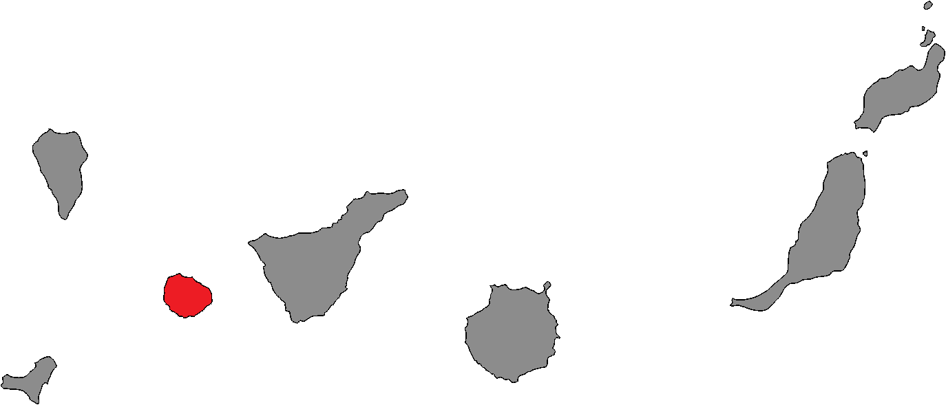 Canarian Parliament district of La Gomera.